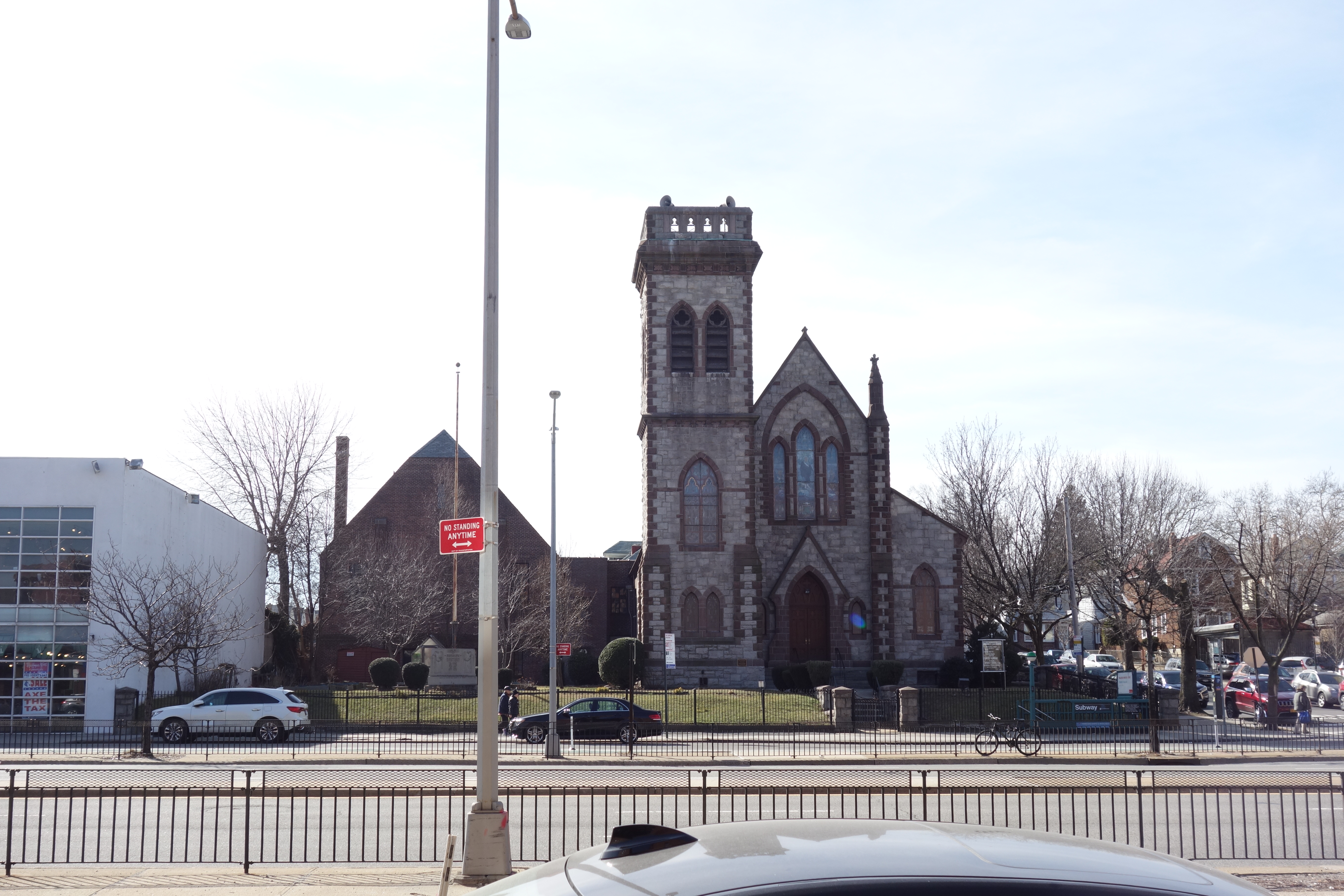 The First Presbyterian Church of Newtown, or First Presbyterian Church of Elmhurst, looking from the north side of Queens Boulevard and 54th Avenue in Elmhurst, Queens.